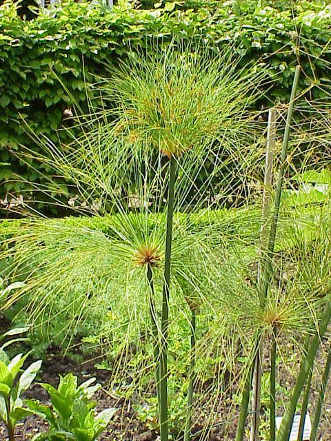 Species: Cyperus papyrus Family: Cyperaceae Image No. 7